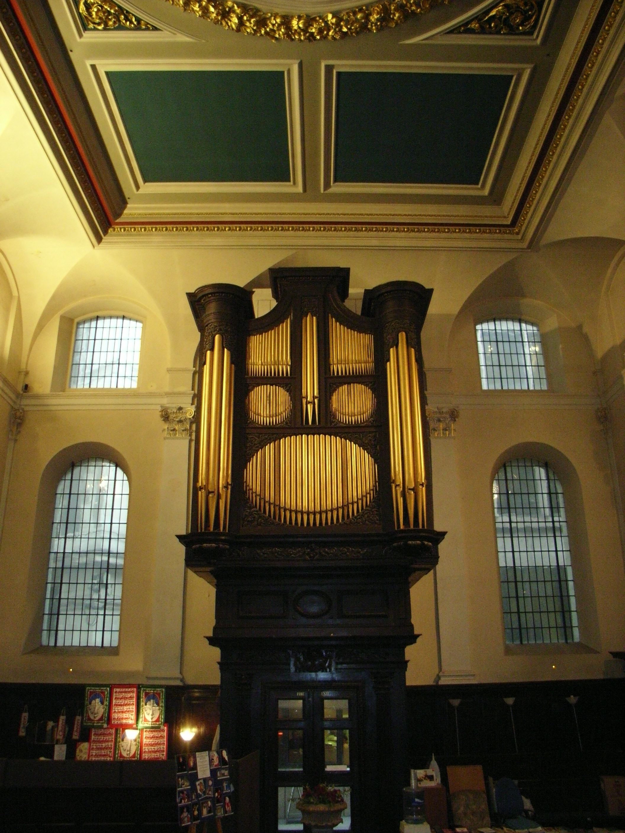 St Clement's Church Eastcheap, London, looking westward (from the altar area), photographed in August 2007.